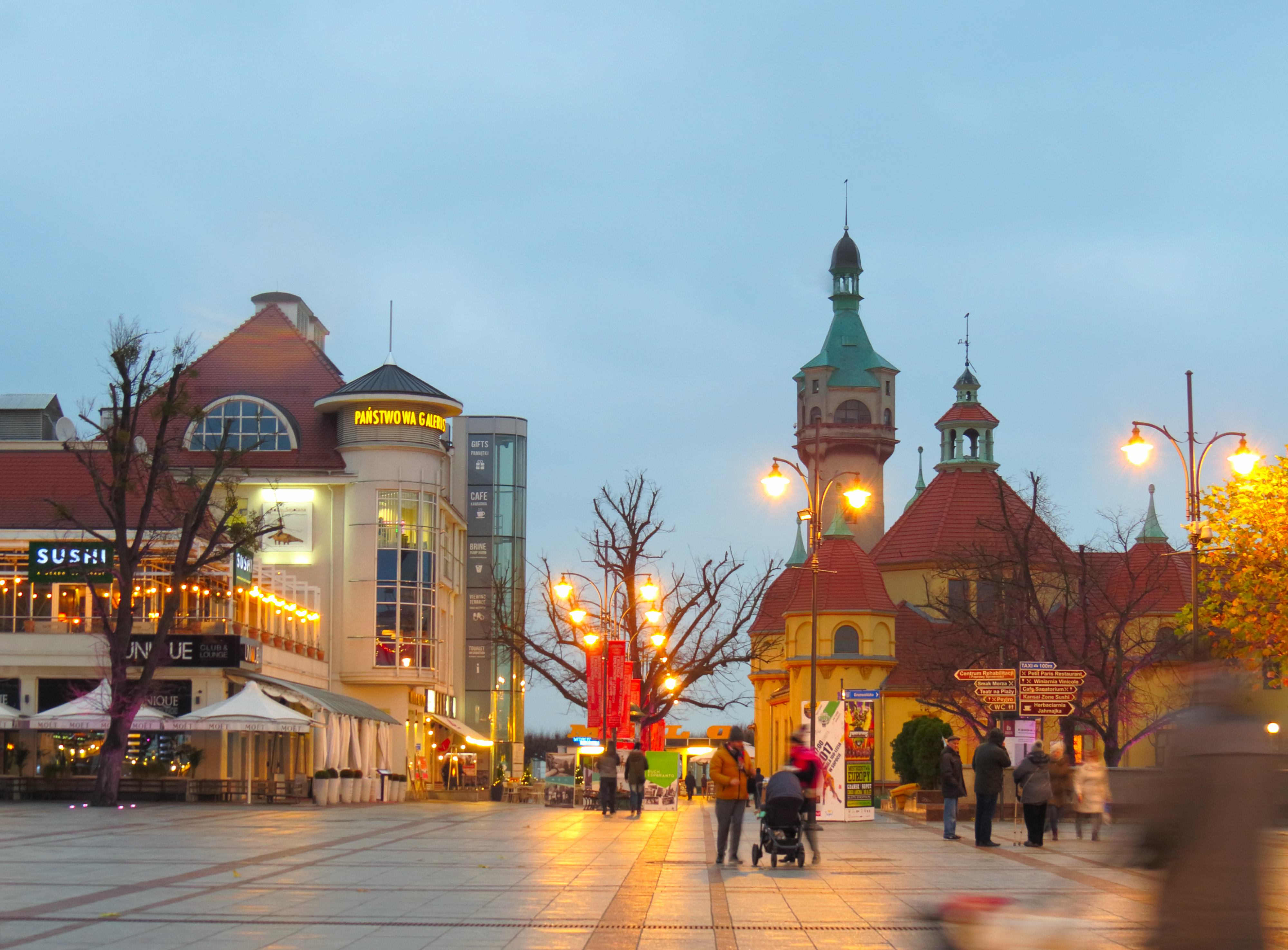 Zdrojowy square in Sopot, Poland.